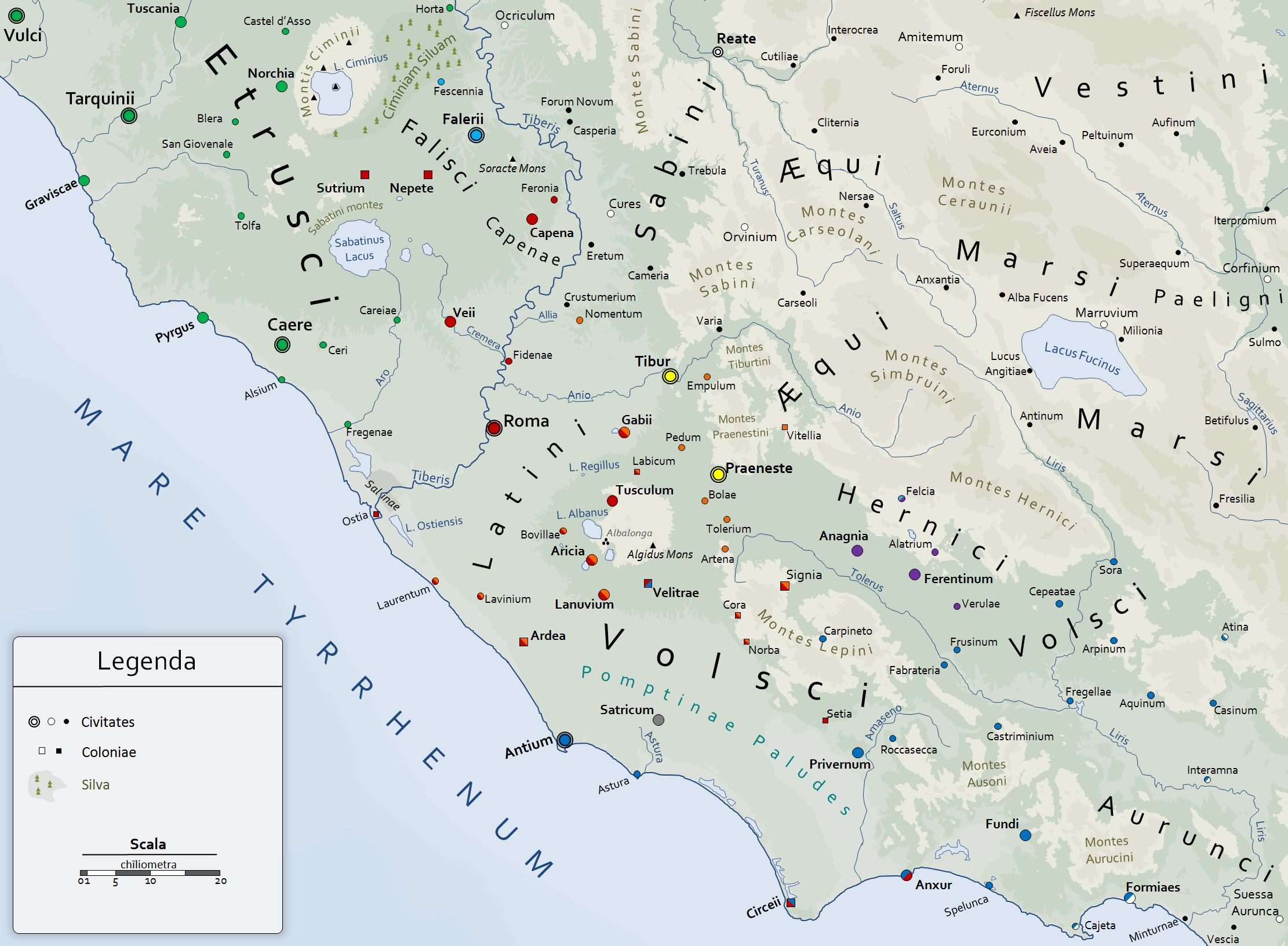 See Guerre romano-hernique#Le contexte for the full legend/caption of the map.